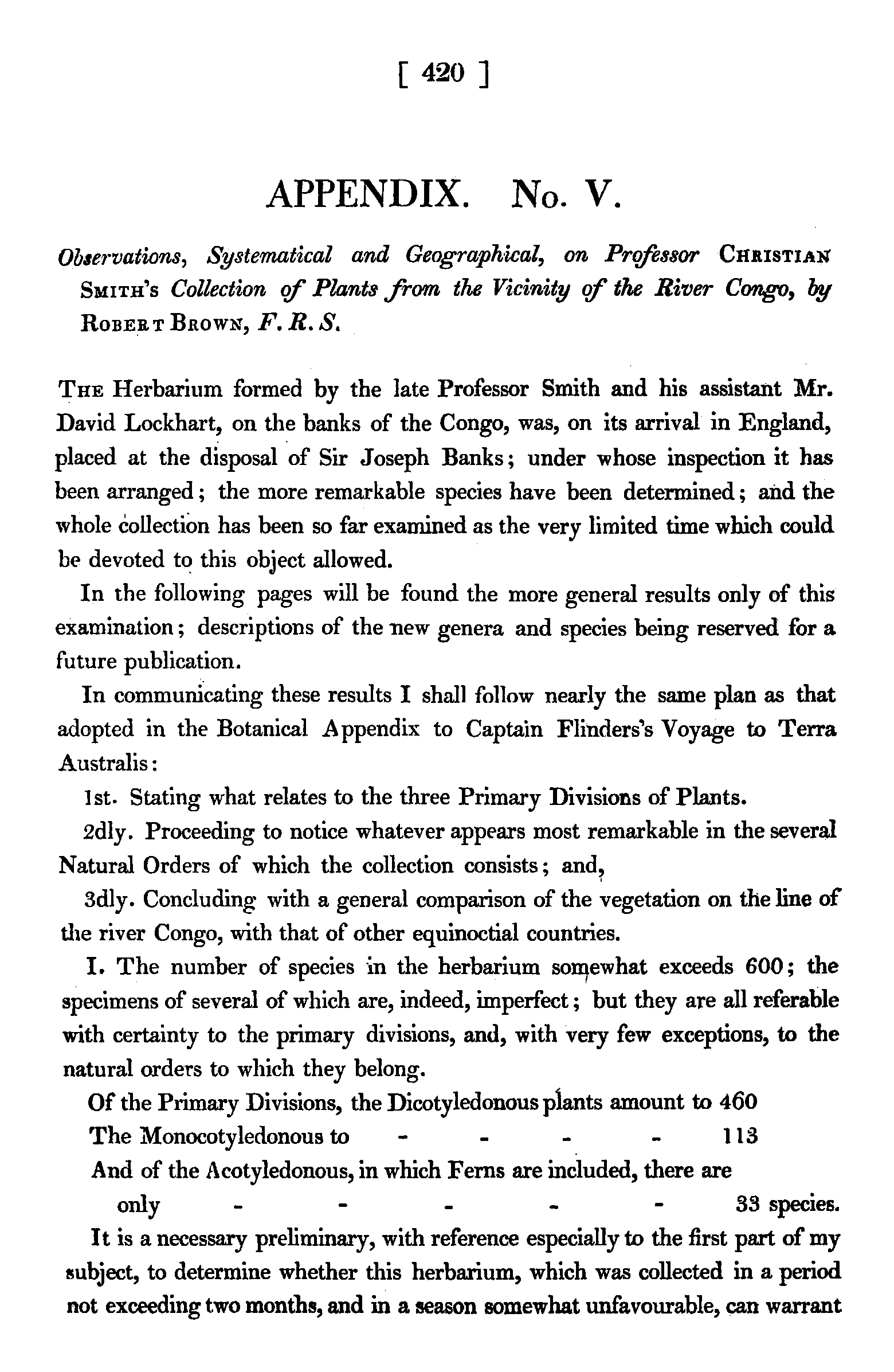 This is page 420 of James Hingston Tuckey's 1818 Narrative of an expedition to explore the River Zaire. It is the first page of Appendix V, Robert Brown's acclaimed Observations, systematical and geographical, on the herbarium collected by Professor Christian Smith, in the vicinity of the Congo, during the expedition to explore that river, under the command of Captain Tuckey, in the year 1816.